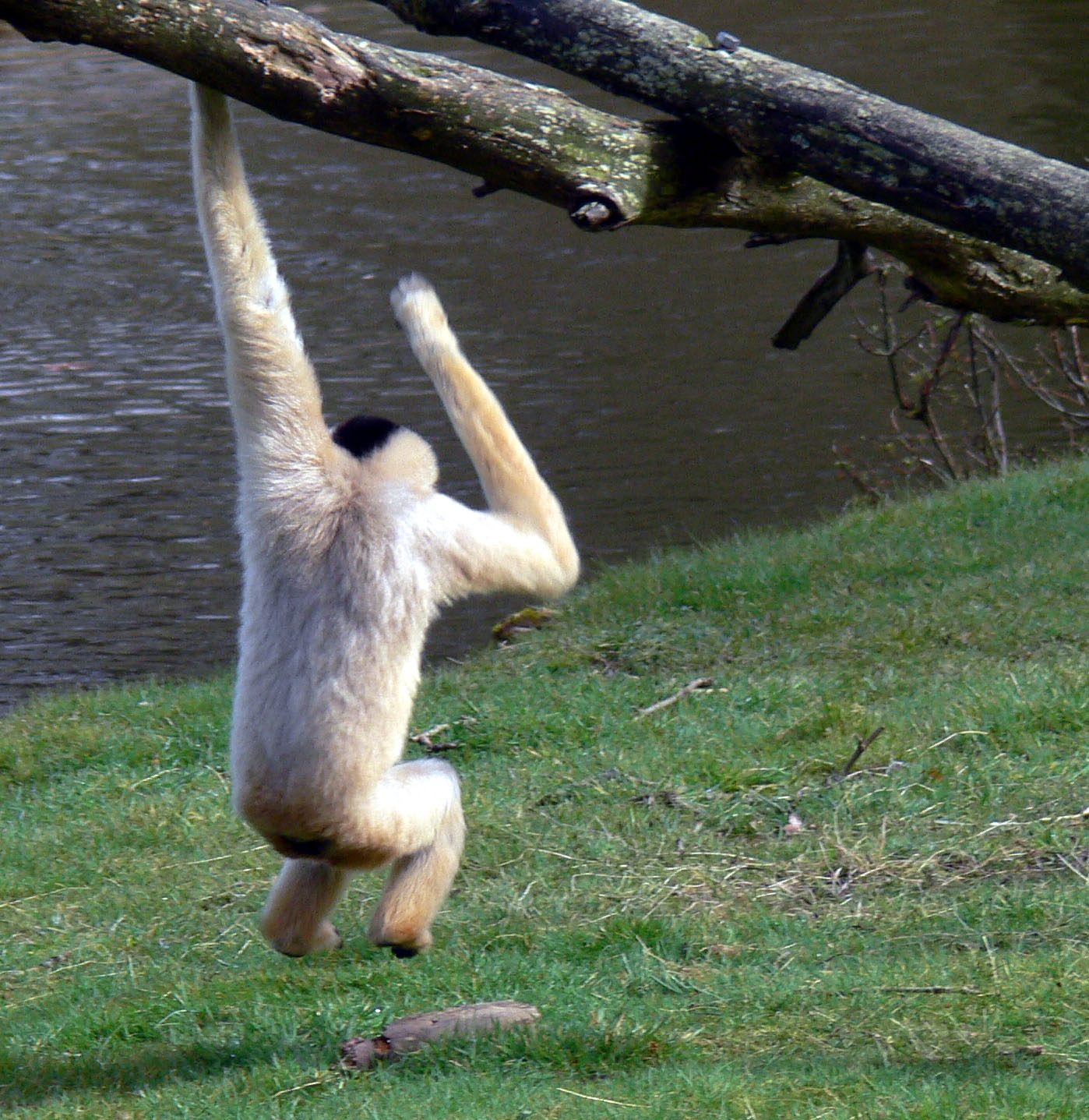 Northern white-cheeked crested gibbon (Nomascus leucogenys), female, Parc zoologique de Branferé, Bretagne sud (Morbihan).